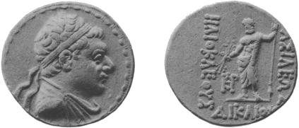 From plate 39 of 1889 edition of _Principal Coins of the Ancients_